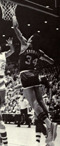 Photograph John Shumate attempting to block the basketball